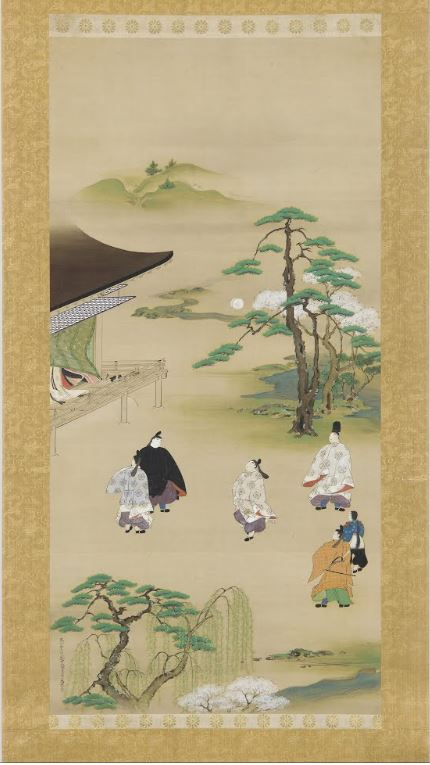 Kemari (scene form chapter 34 of Tale of the Genji)